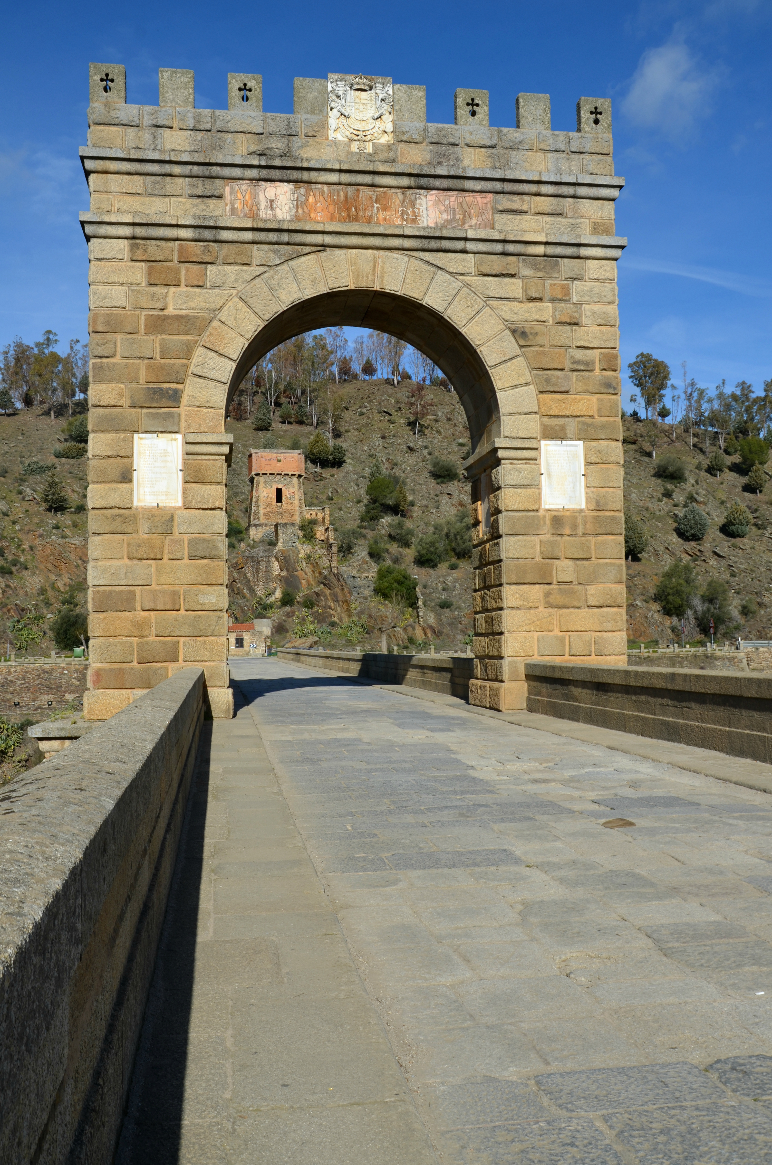 The Alcántara Bridge built over the Tagus River between 104 and 106 AD by a man named Caius Julius Lacer, and dedicated to the Roman emperor Trajan, Spain